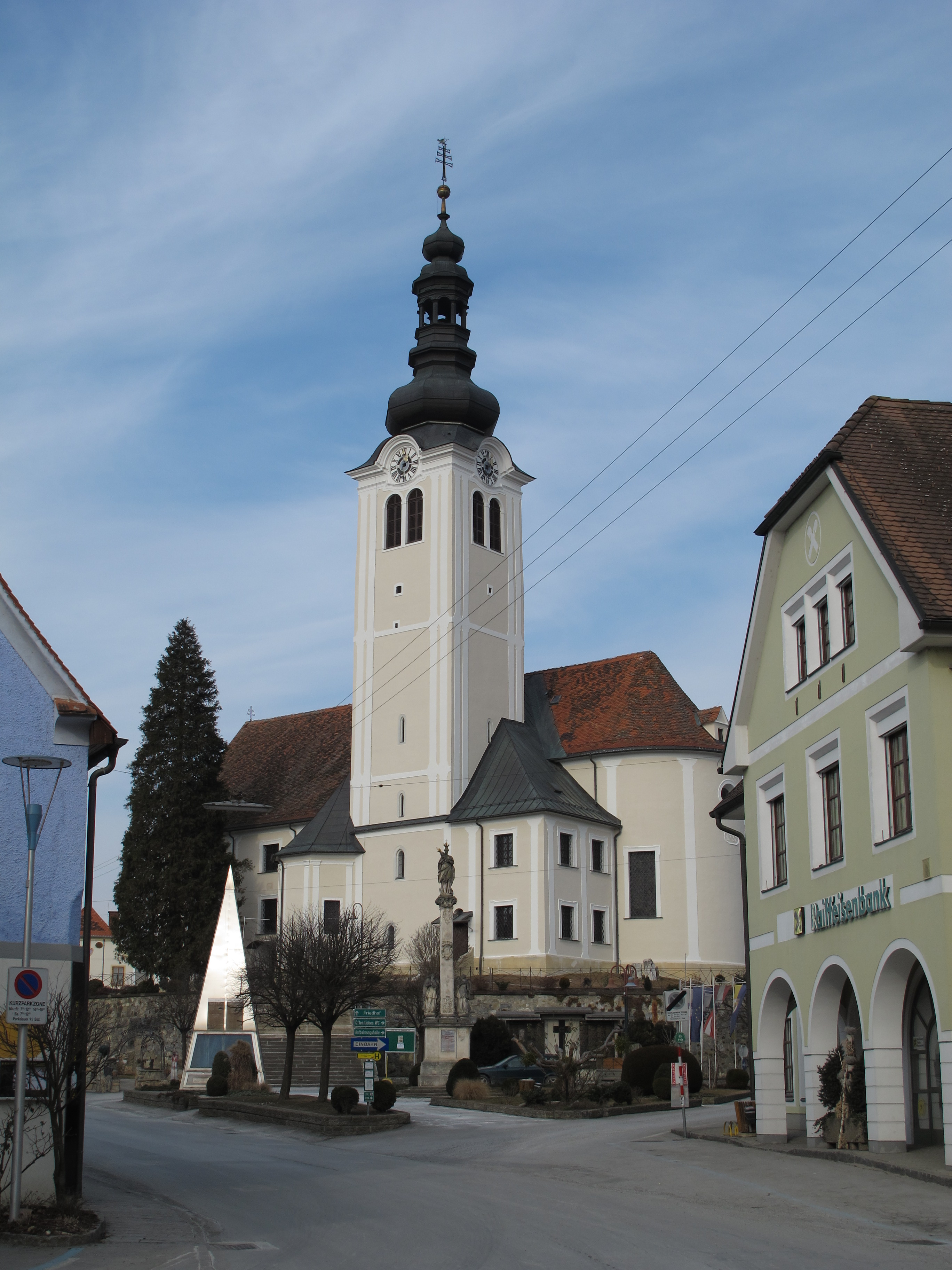 Pfarrkirche Sankt Ruprecht an der Raab, davor das Foucaultsches Pendel